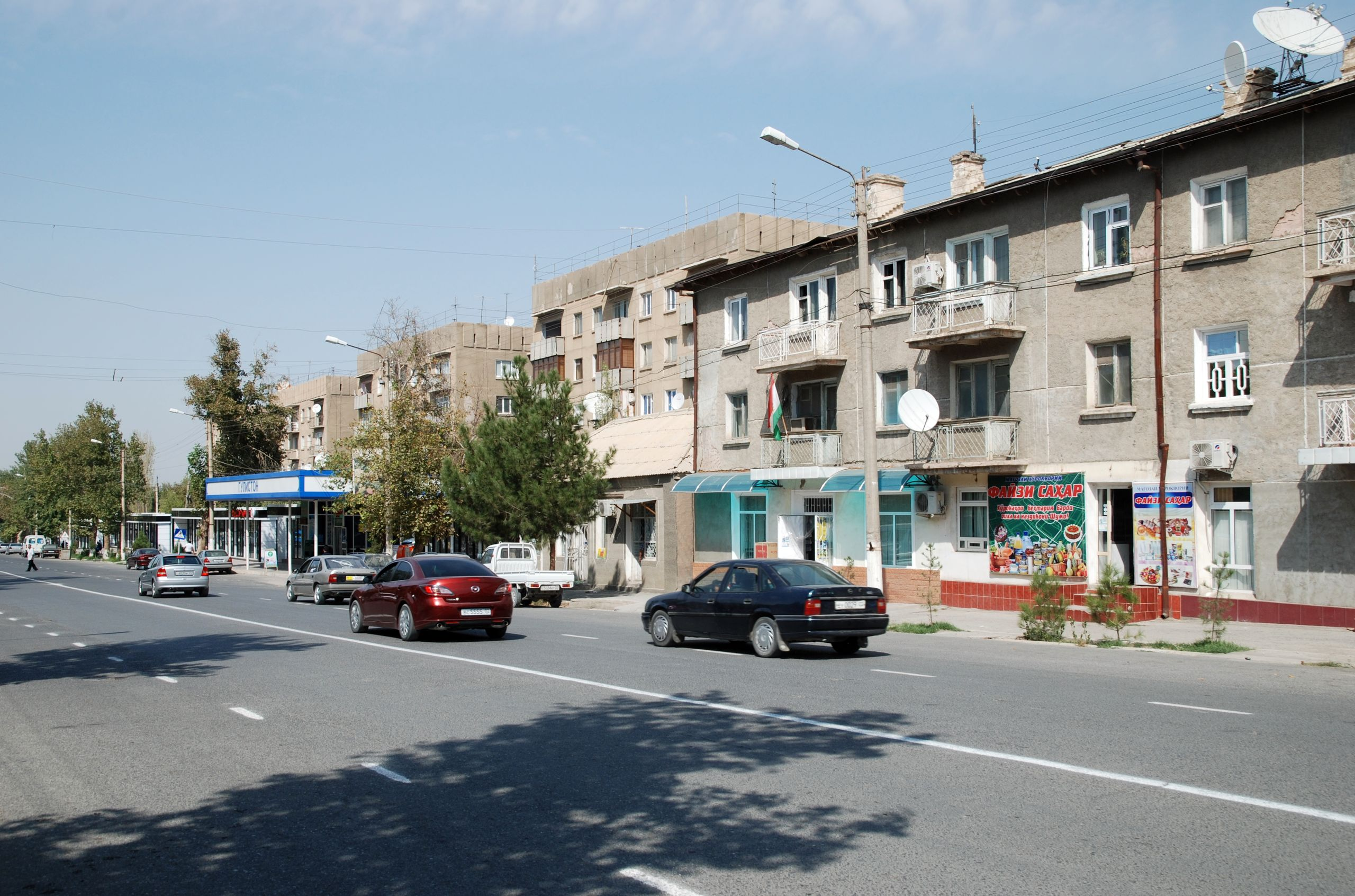 Konibodom, Lenin street